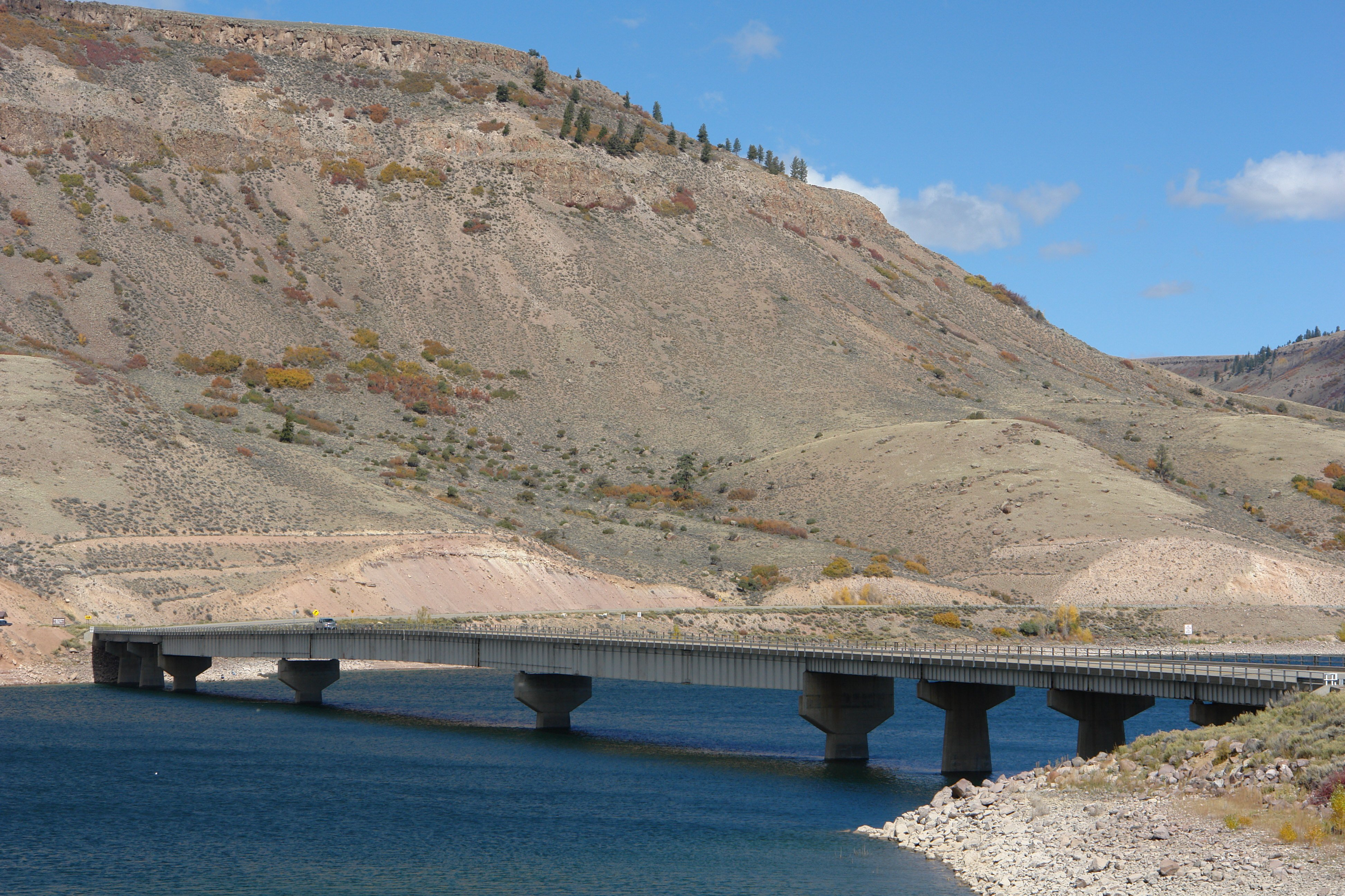 Middle Bridge in Gunnison, Colorado, taken from the South looking North